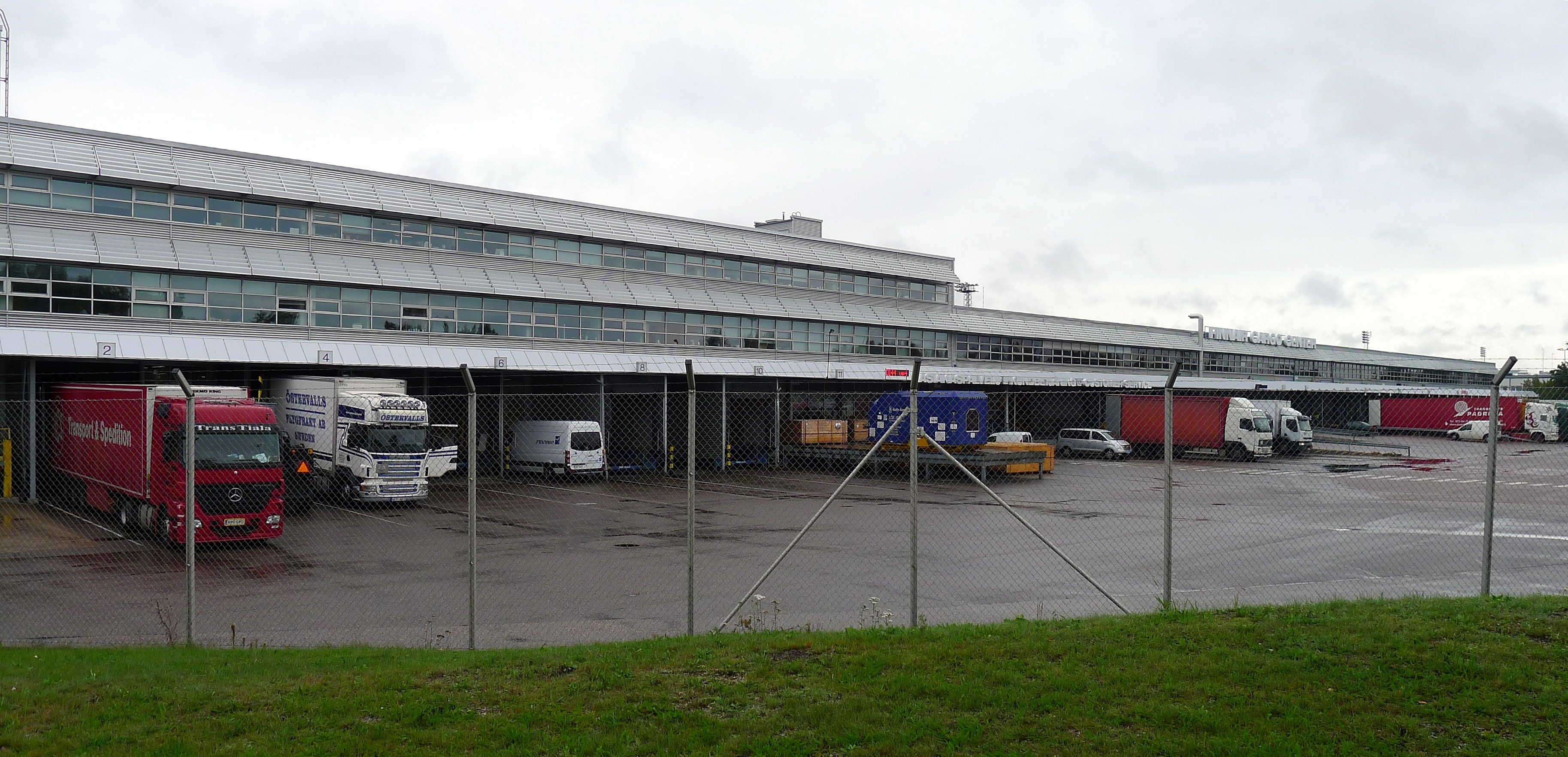 Finnair Cargo offices at Helsinki-Vantaa airport